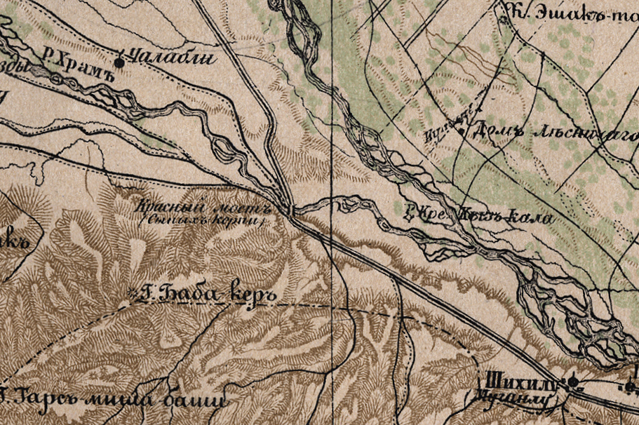 Ruins of the Khunani castle on the map